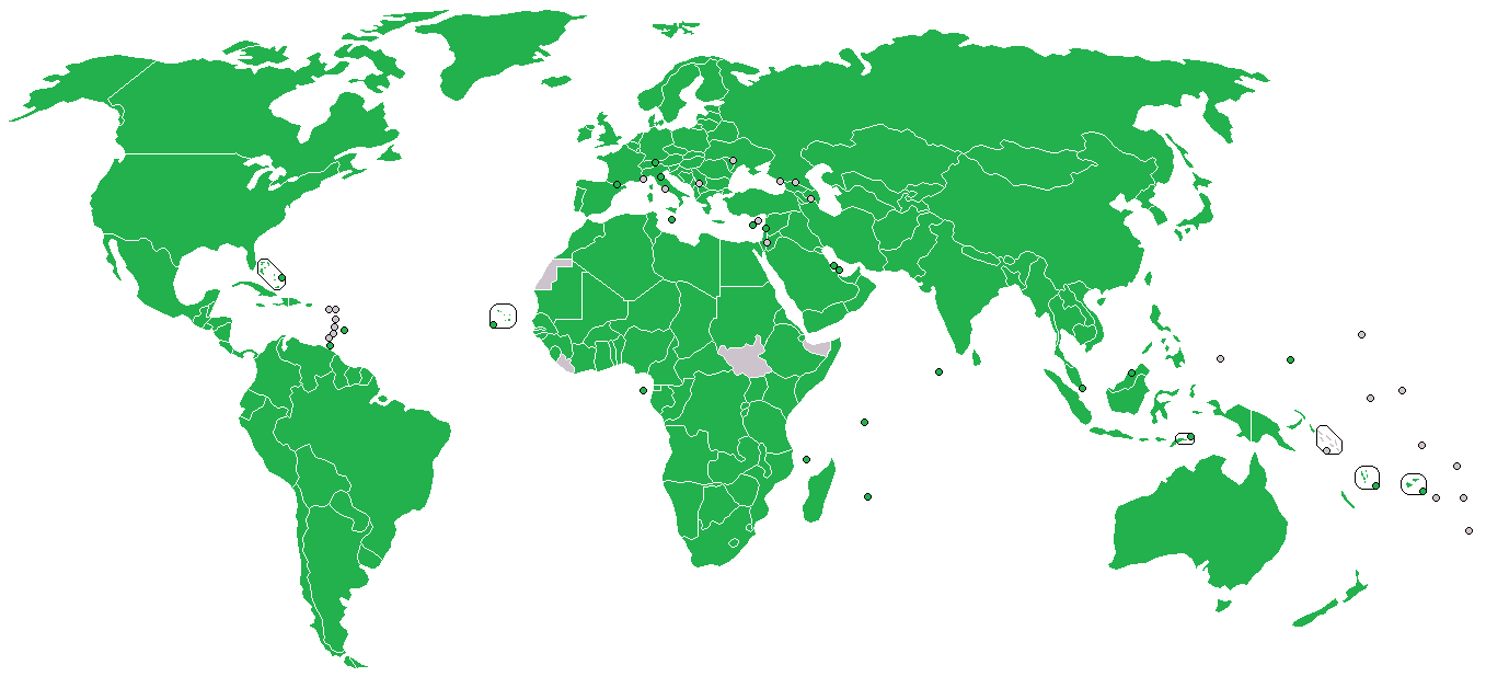 World Organization for Animal Health members. [1]